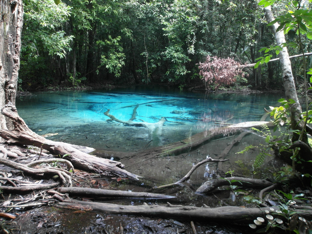 Blue Pool at Khao Phra Bang Khram Nature Reserve, near Krabi (Thailand)